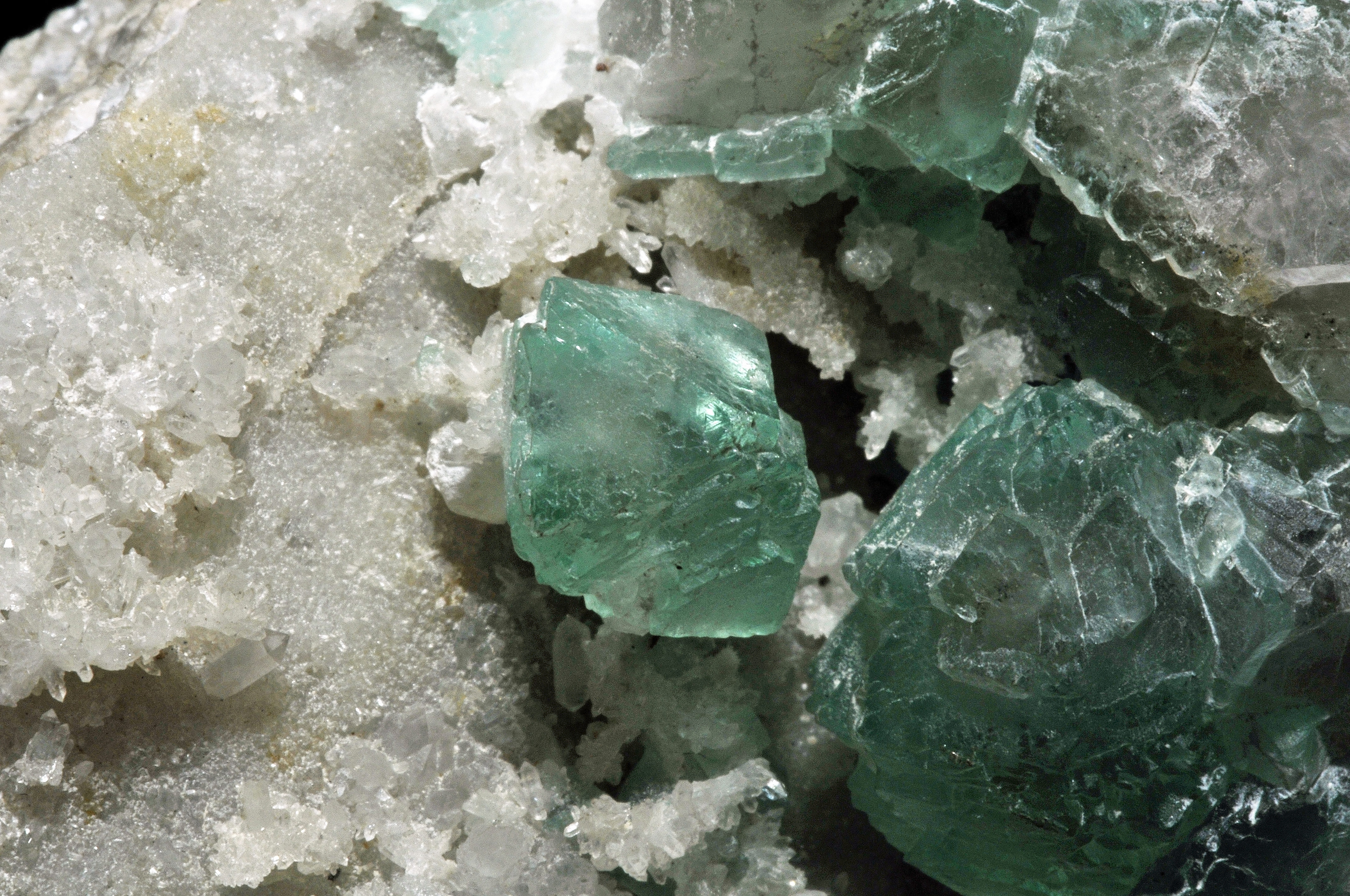 fluorite var. green fluorite, quartz : Berta quarry and mine, Sant Cugat del Vallès-El Papiol, Vallès Occidental-Baix Llobregat, Barcelona, Catalonia, Spain